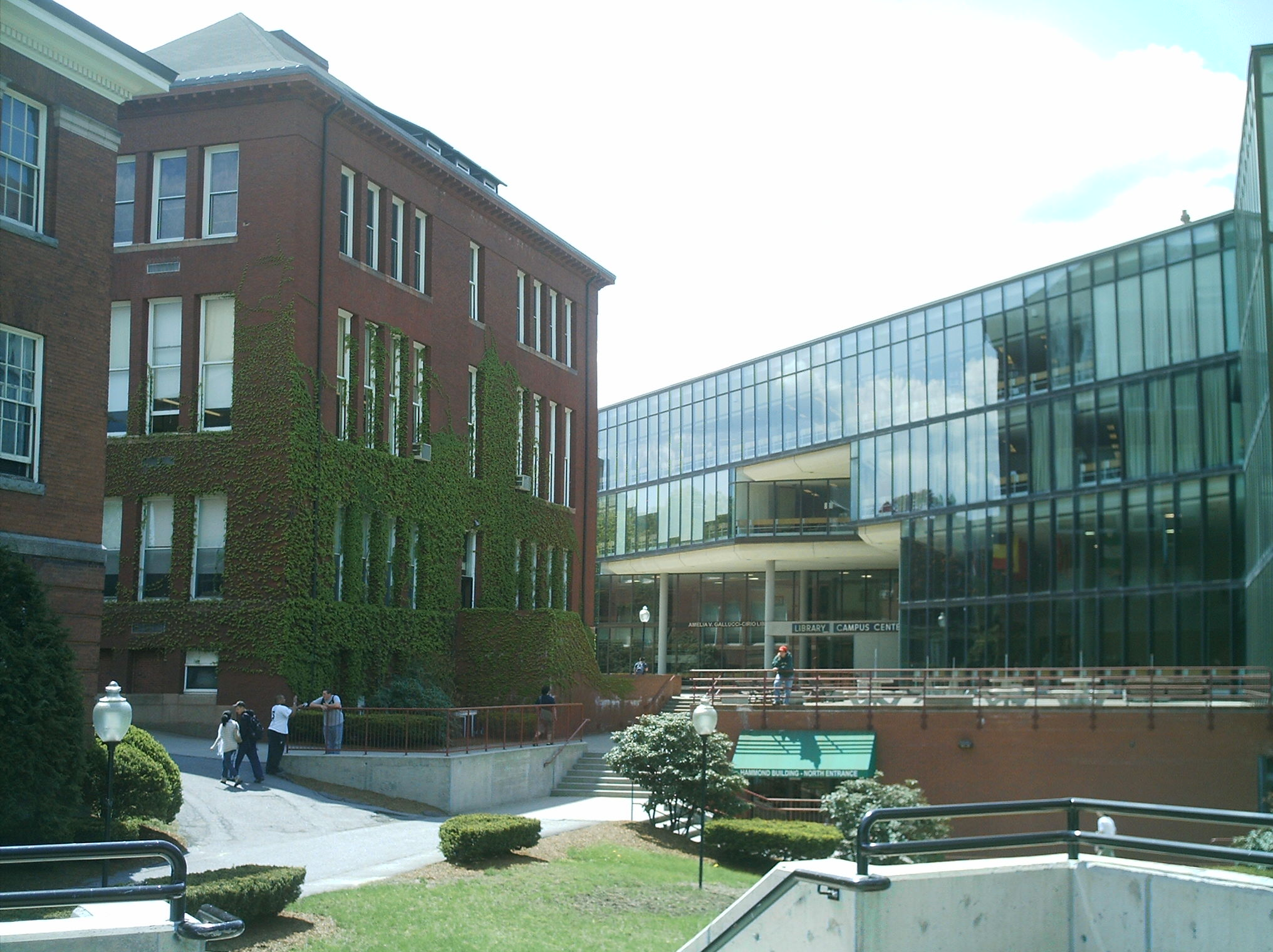 The Hammond Building and Thompson Hall (Left) at Fitchburg State College